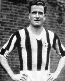 Luis Felipe Monti while playing for Juventus Italy, 1931-1938.